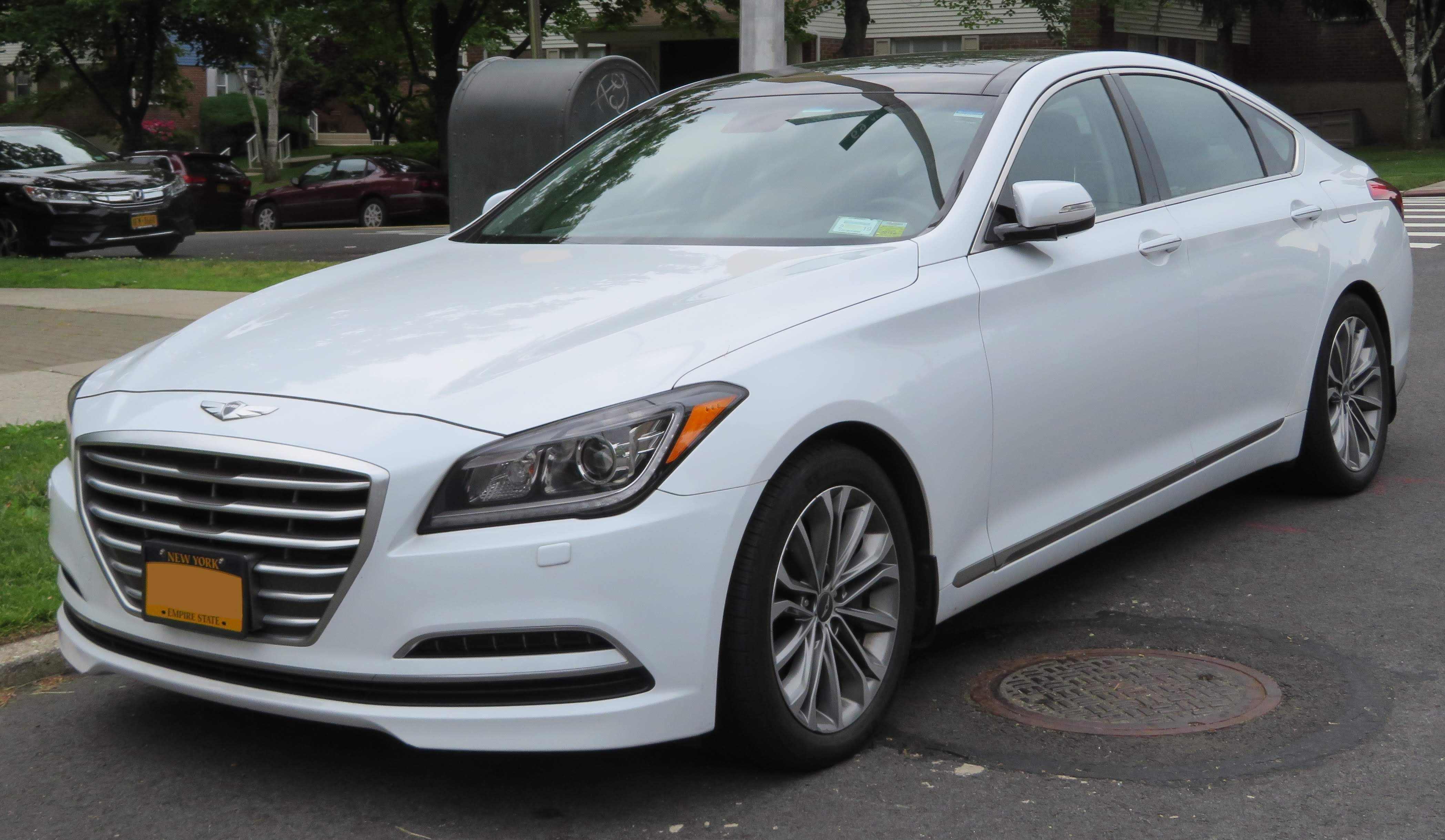 Photographed in Queens, New York